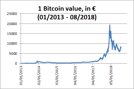 Graphique showing one Bitcoin value in euros since 2013 (it could be updated by anyone)